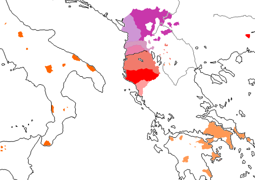 Map showing the distribution of the Various dialects of Albanian split into Tosk and Gheg groups. Northwestern Gheg Northeastern Gheg Central Gheg Southern Gheg Northern Tosk Labërisht Çam Arvanitika Arbërisht